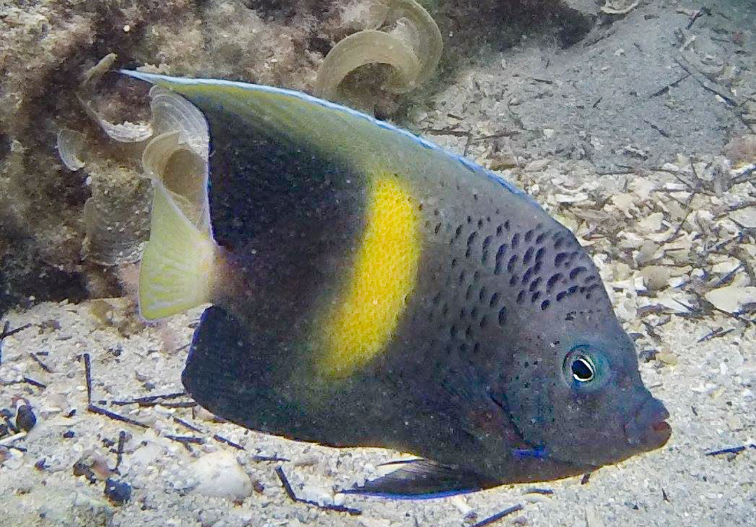 Yellowbar Angelfish (Pomacanthus maculosus) from Dubai-Jumeirah Sea, Arabian Gulf, United Arab Emirates